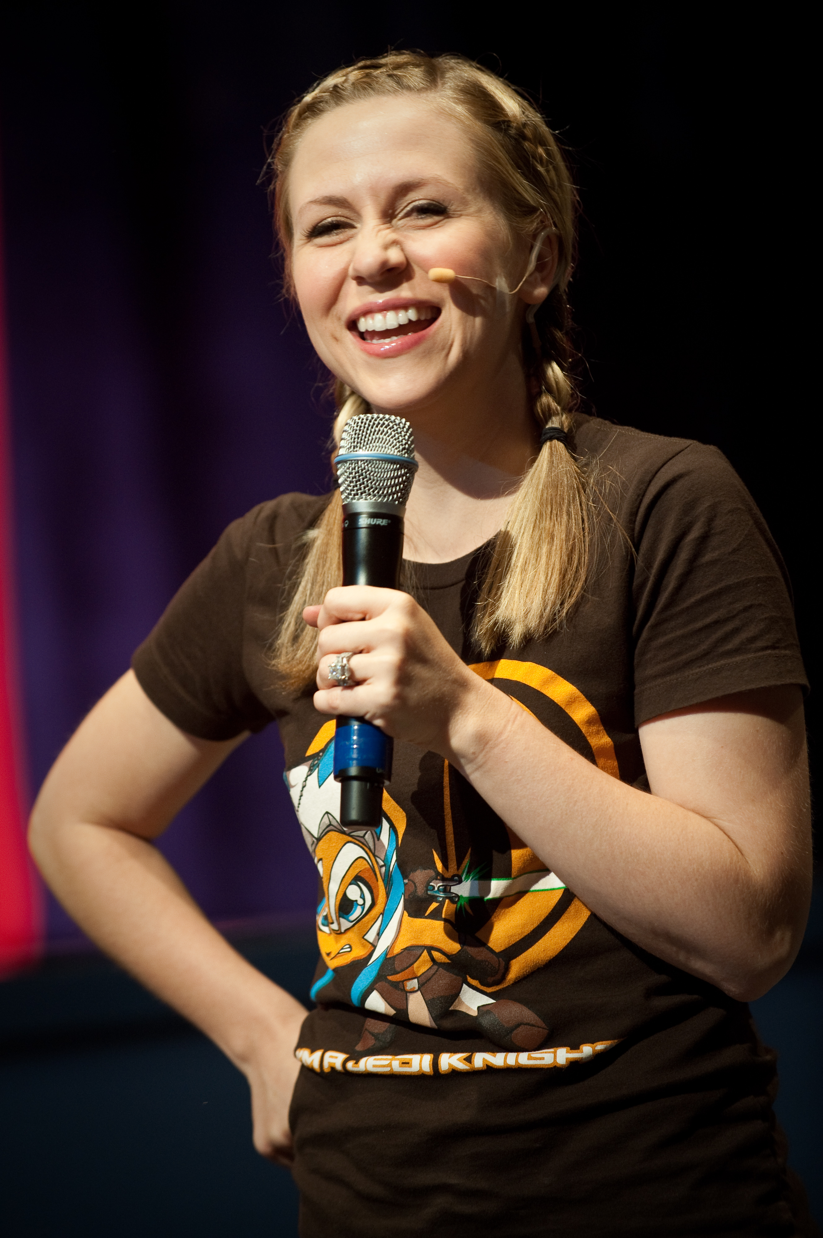 Ashley Eckstein at the Star Wars Weekends 2010.